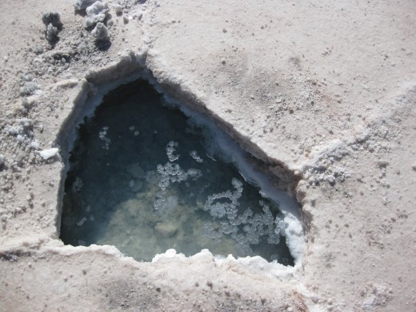 The Uyuni Salt flat is made of of various layers of salt and water